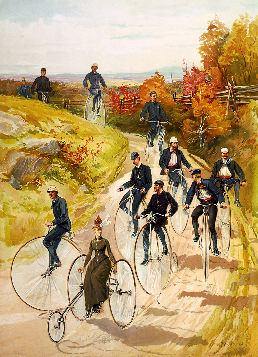 Woman on tricycle, followed by men on penny-farthings.